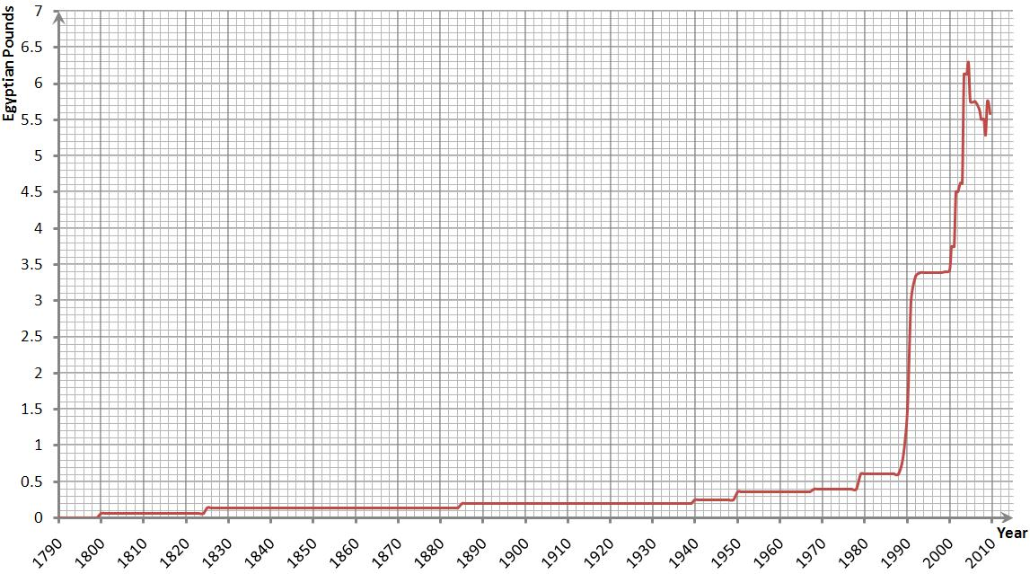 Us dollar value in egyptian pounds